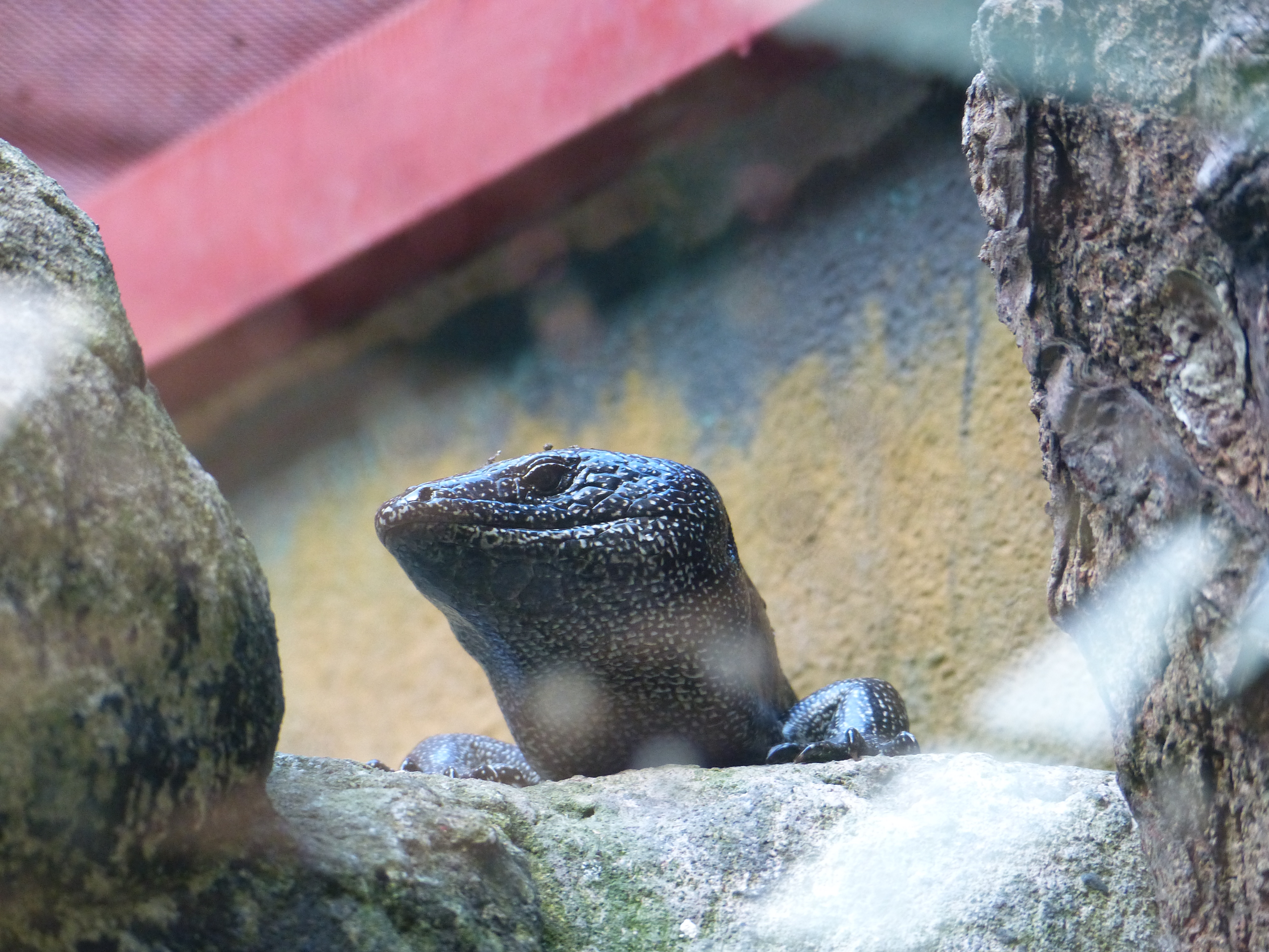 Diploglossus millepunctatus in captivity